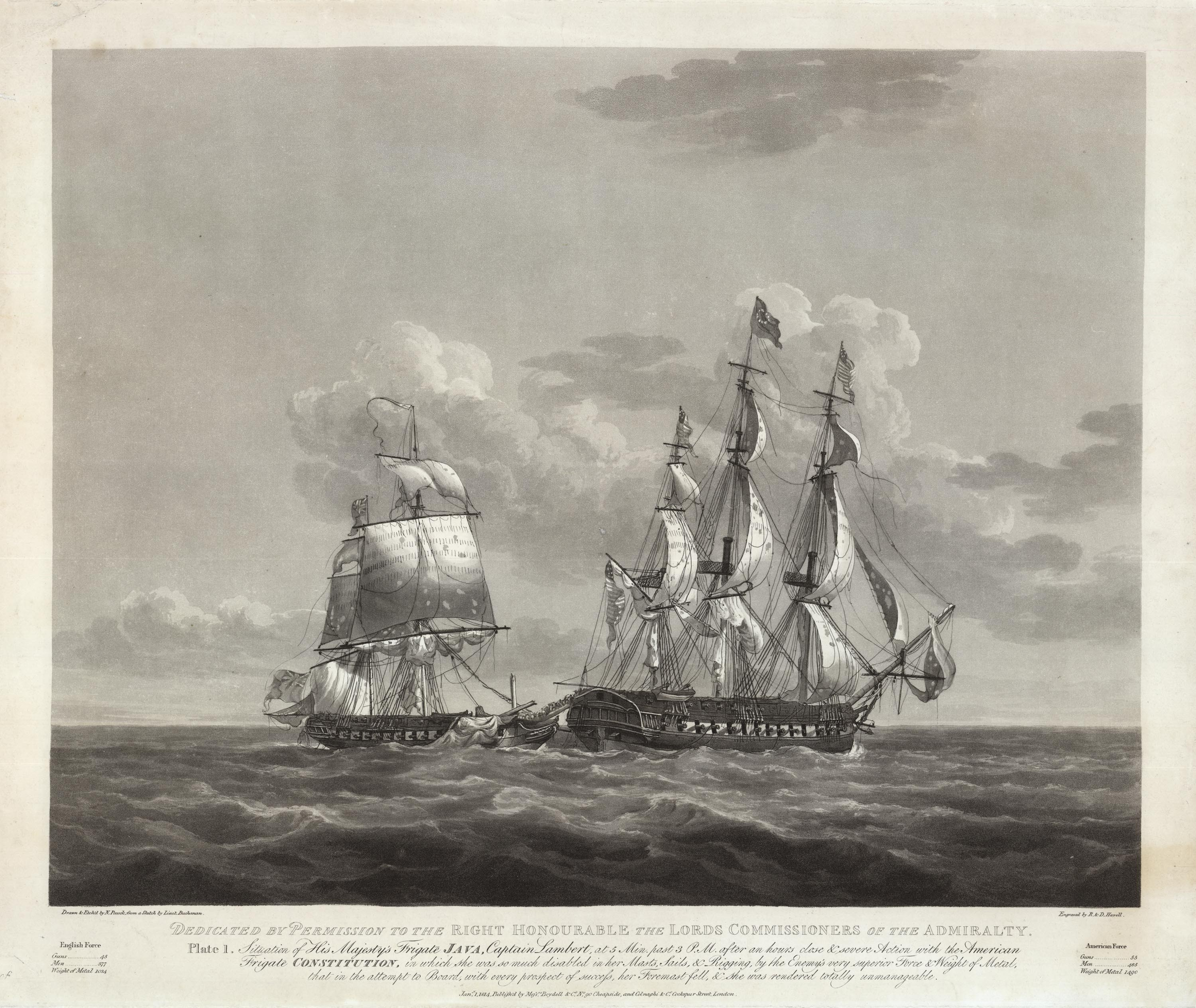 Capture of the HMS Java Drawn & Etched by N. Pocock, from a Sketch by Lieut. Buchanan / Engraved by R. & D. Havell / Published by Messrs. Boydell & Co.